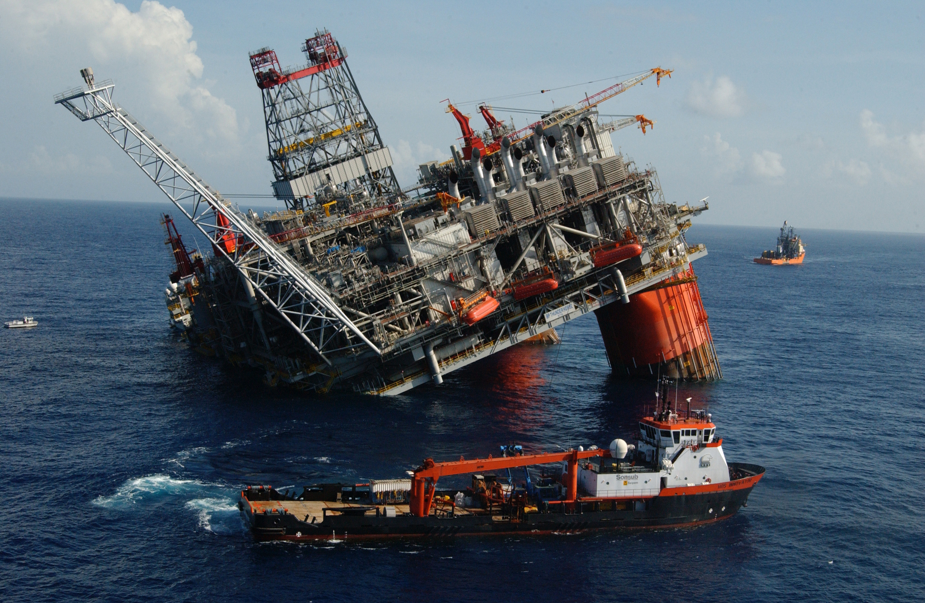 NEW ORLEANS, La. (July 12, 2005)--Thunder Horse, a semi-submersible platform owned by BP, was found listing after the crew returned. The rig was evacuated for Hurricane Dennis. USCG photo by PA3 Robert M. Reed